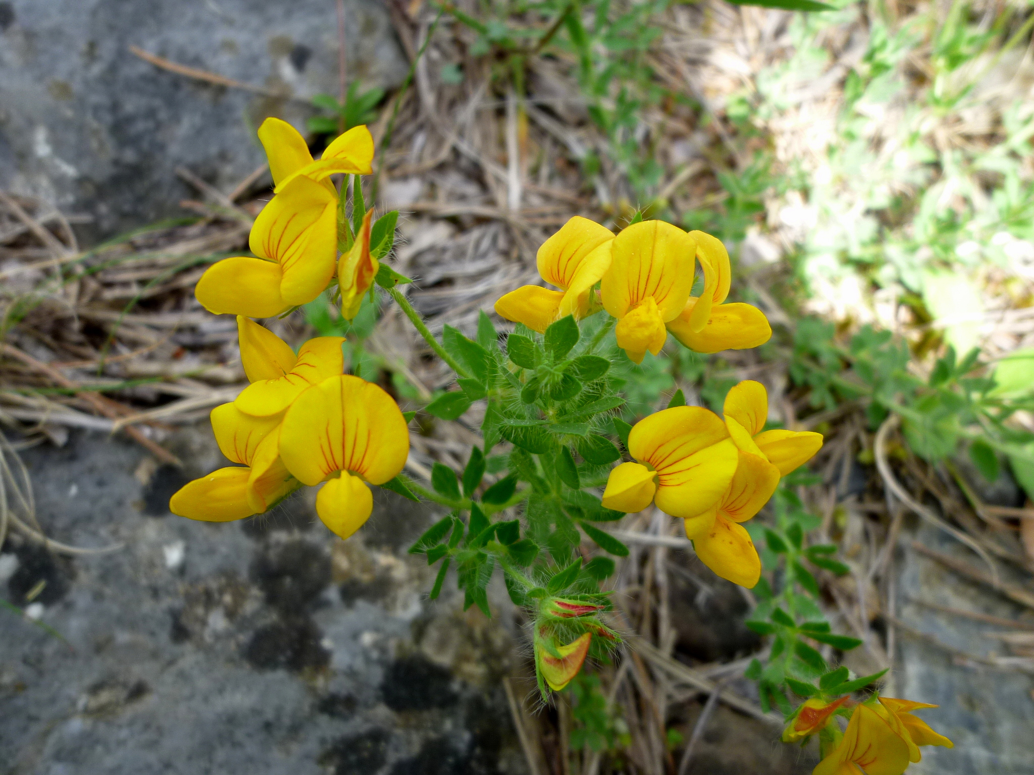 Lotus corniculatus. In Guixers (Solsonès - Catalunya), to 1.050 m. altitude